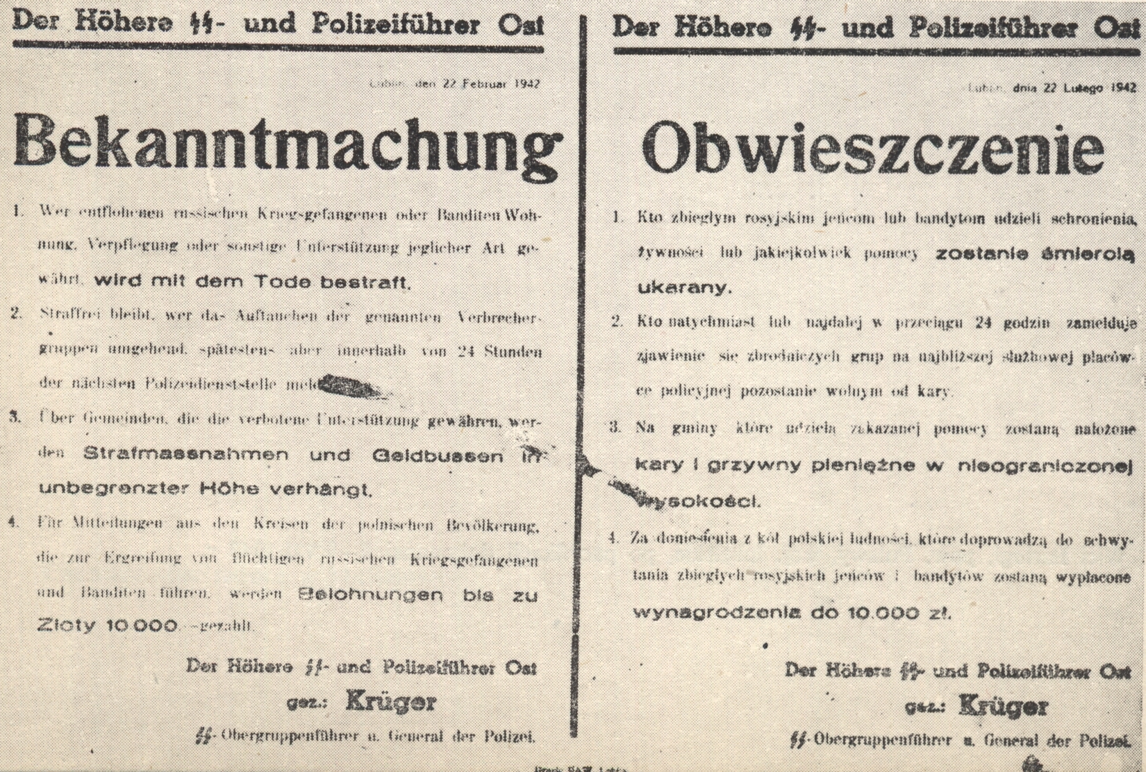 German poster in occupied Poland (dated 22nd February 1942), signed by Higher SS and Police Leader in General Gouvernment, SS-Obergruppenführer Friedrich Wilhelm Krüger, informing about severe penalties (including death penalty) for aiding the Polish partisans or Soviet prisoners of war who escaped from German POWs camps.